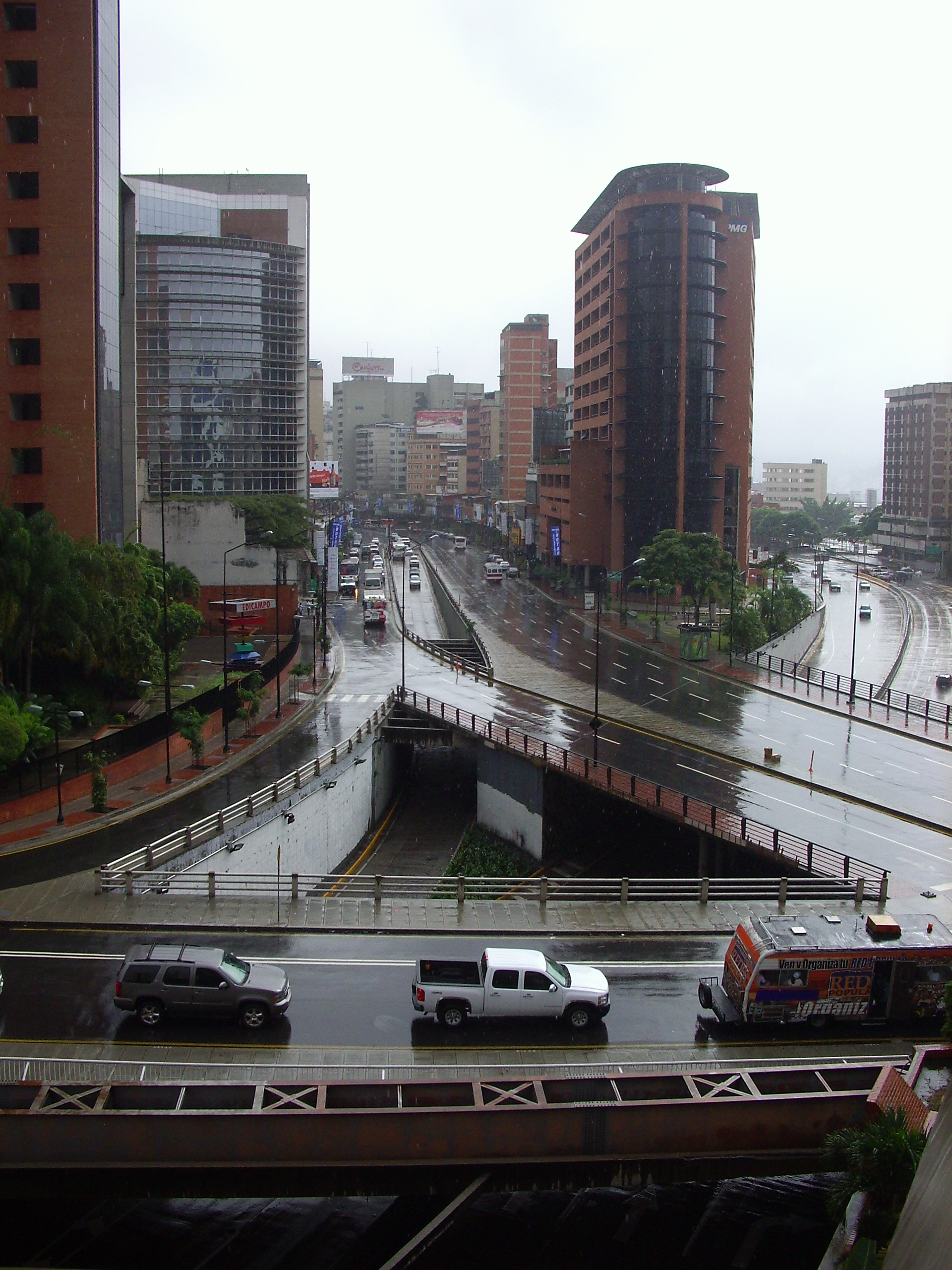 Woke up this morning to find it pouring with rain